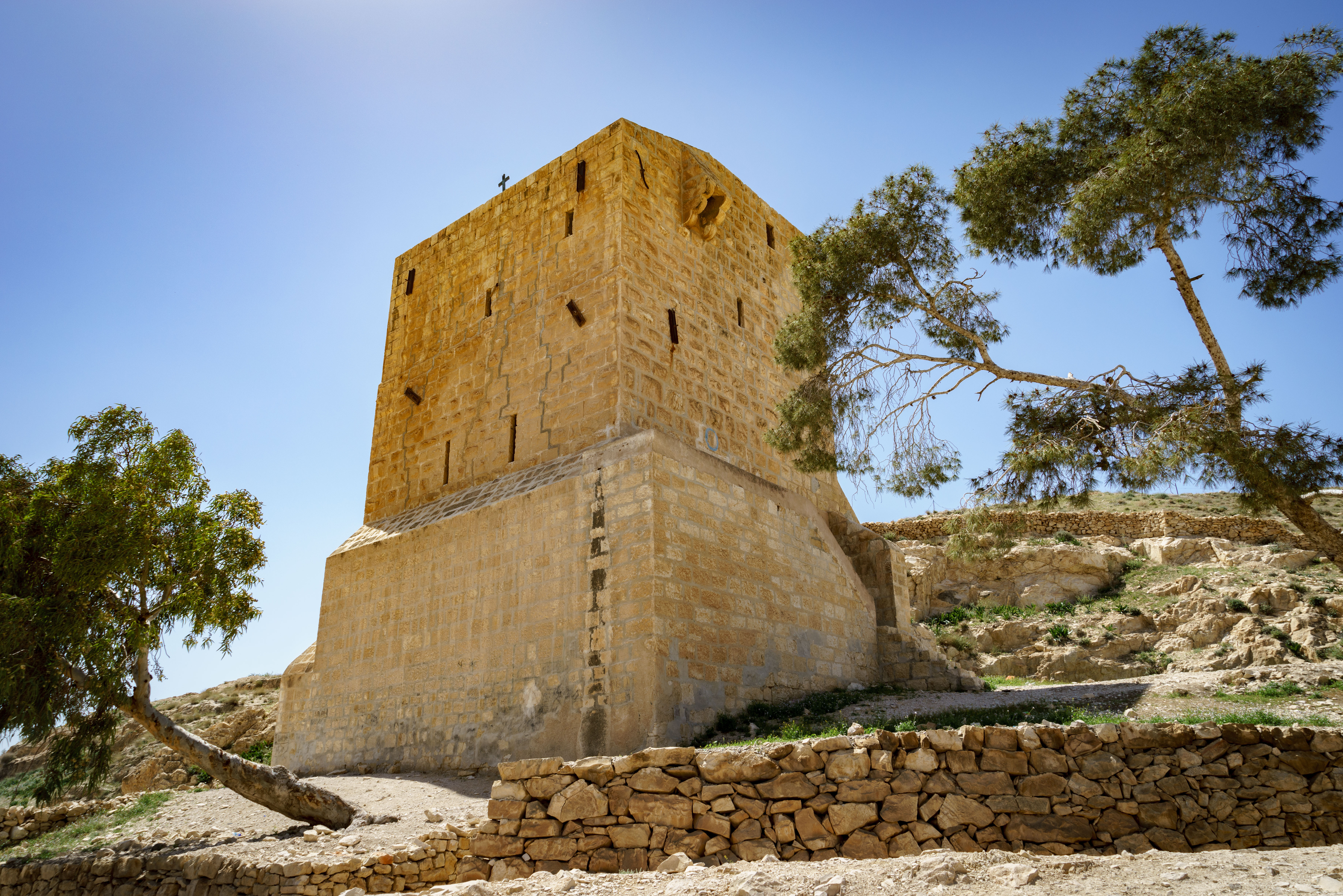 The Women's Tower at Mar Saba Monastery. This is the only building on the grounds that women are allowed to enter. Photo taken in 2014